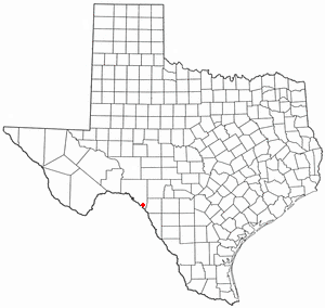 a map of Texas